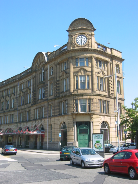 Victoria Station, Manchester, England.